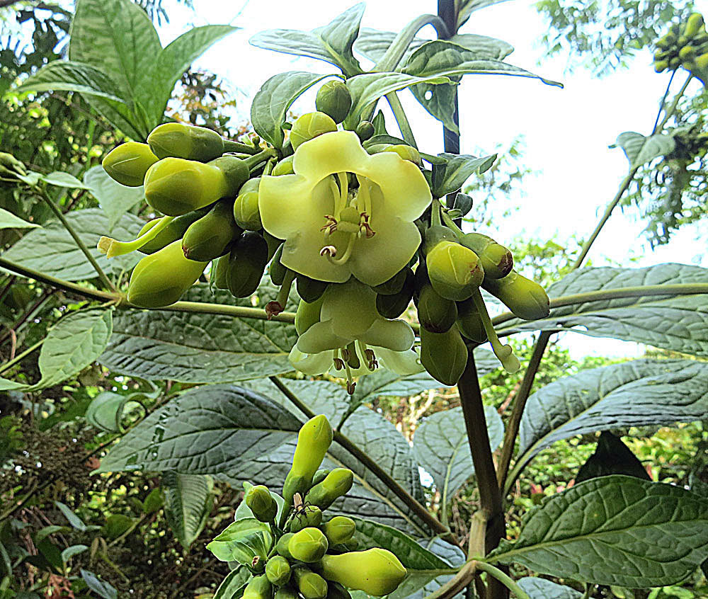 Found at moderate altitudes in Ecuador. Photo from Wildsumaco Reserve.